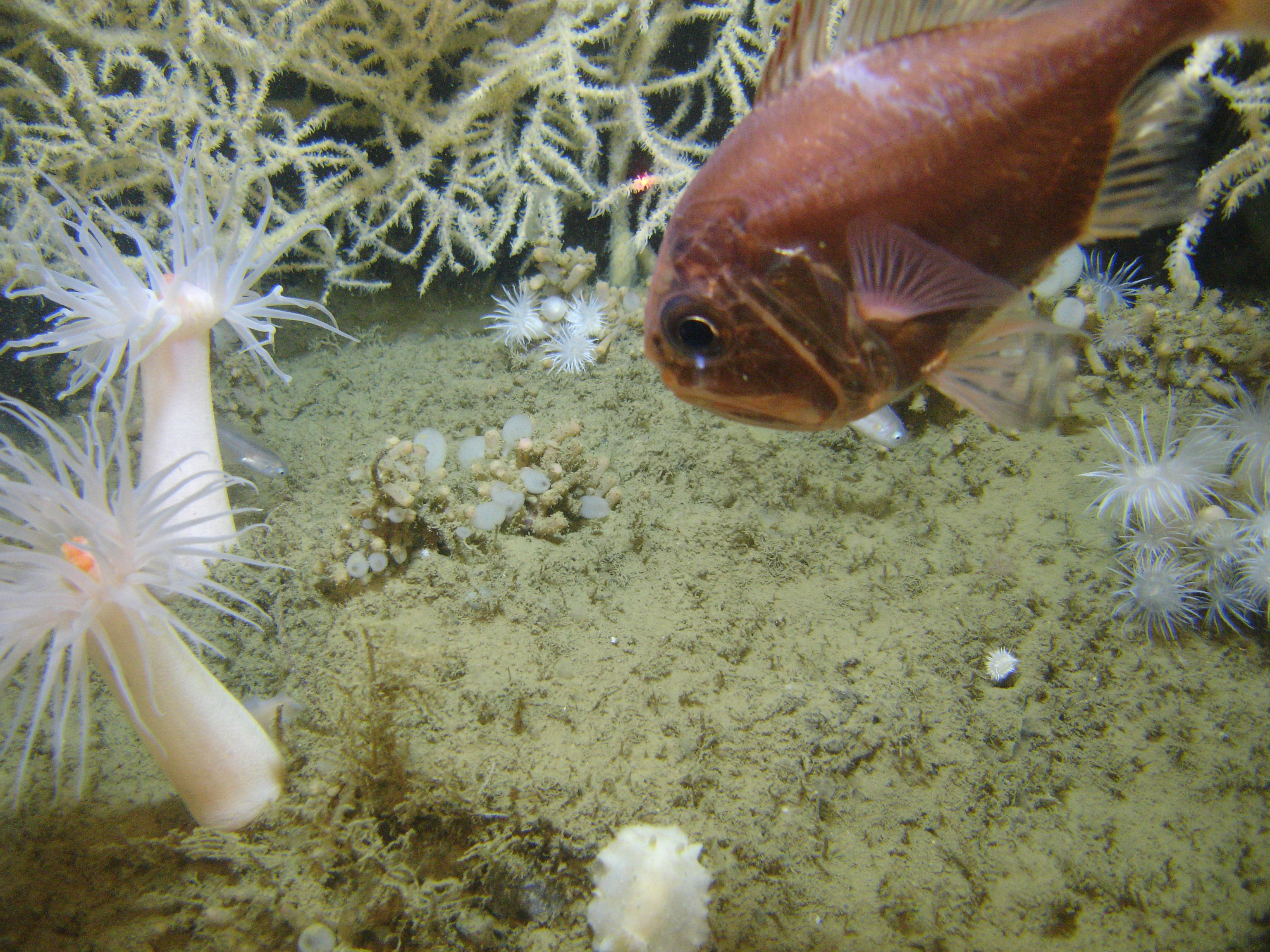 Atlantic roughy Hoplostethus occidentalis at the base of a large Leiopathes glabberima black coral colony